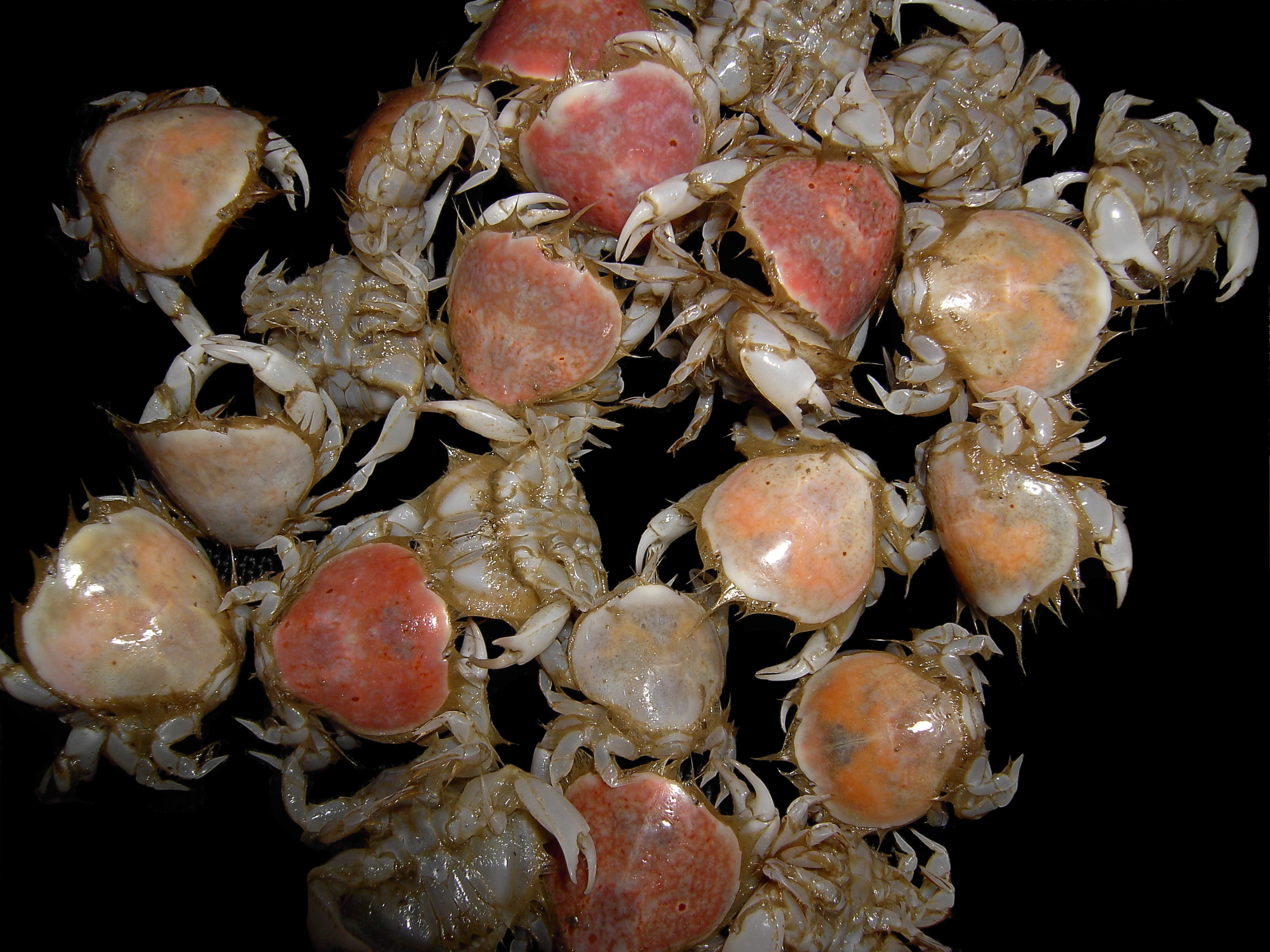 Thumbnail crabs